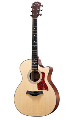 Taylor, Acoustic Guitar, model 314